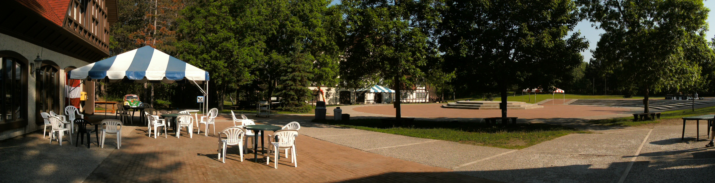 A photograph of the Markplatz in Waldsee, Bemidji, the German immersion program offered by Concordia Language Villages. To the left, the Gasthof (cafeteria) building can be seen, and in the back is the Bahnhof (Train Station).